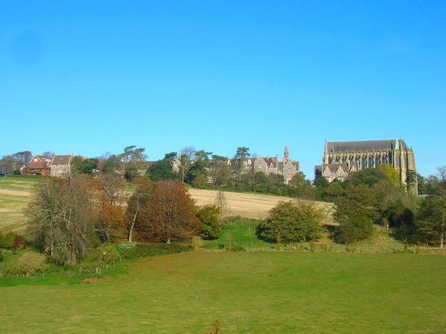 Lancing College, near to Shoreham Airport, West Sussex, Great Britain. Founded in 1848 by the then curate of New Shoreham, Nathaniel Woodard, begun in 1854 with the first pupils starting in 1858. The chapel which dominates the skyline of the western side of the Adur Valley was started in 1868 and got to its present state in 1911, a tower was planned for the northern side but was never built. The Woodard Trust owns a number of other independent colleges including Ardingly and Hurstpierpoint and is also involved in state schools becoming academies and will be taking over nearby Boundstone School in Lancing for the beginning of the following academic year.